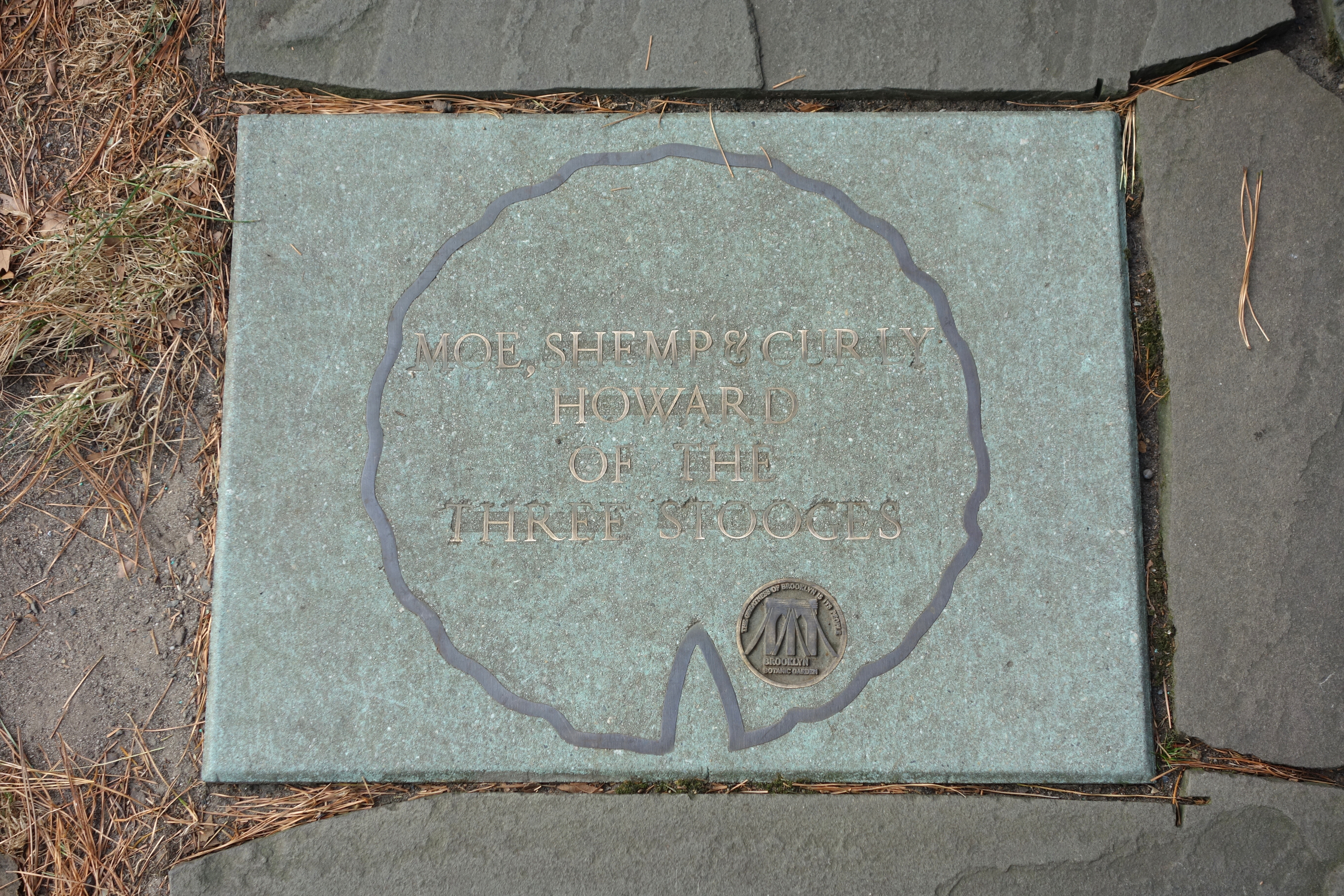 Brooklyn Celebrity Path in the Brooklyn Botanic Garden, Brooklyn, New York, USA. This work is in the public domain because it was published in the United States between 1978 and March 1, 1989 with neither copyright notice nor registration within 5 years.